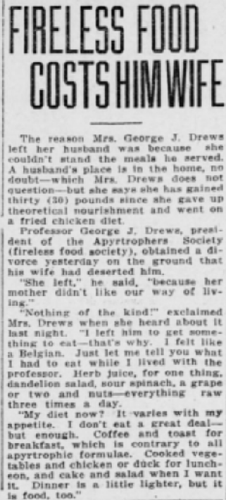 Newspaper clipping from 1915 that mentions the divorce of George J. Drews.